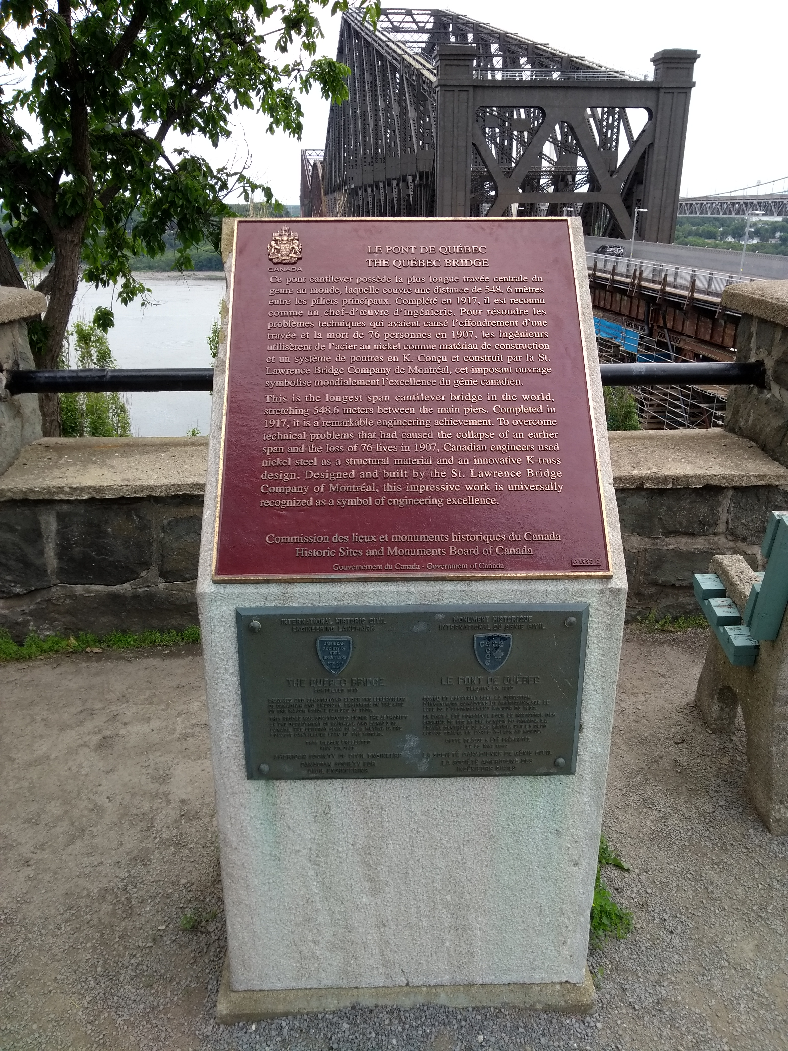 Canada national historic landmarks plaque.